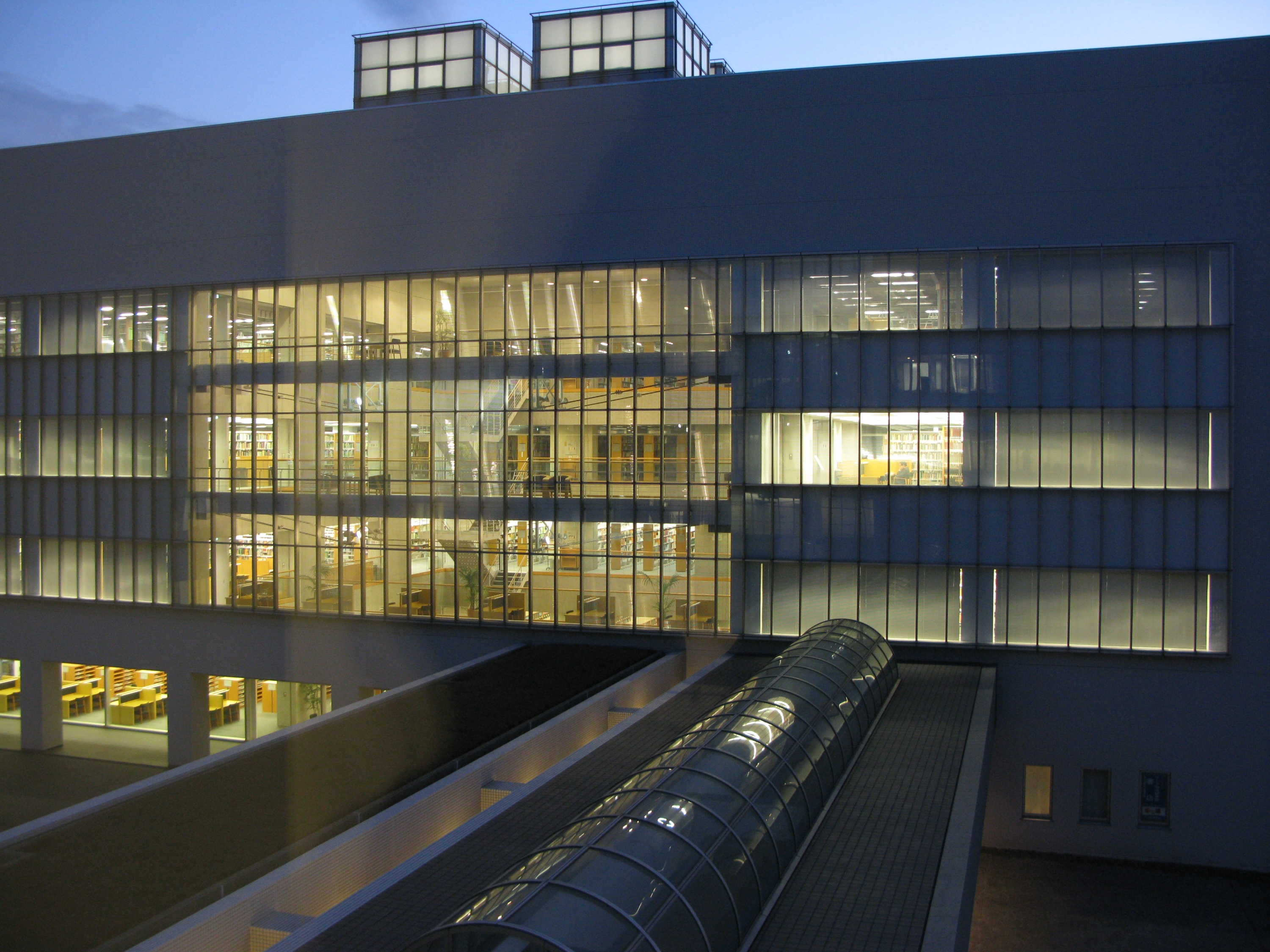 JETRO-Institute of Developing Economies Library at night